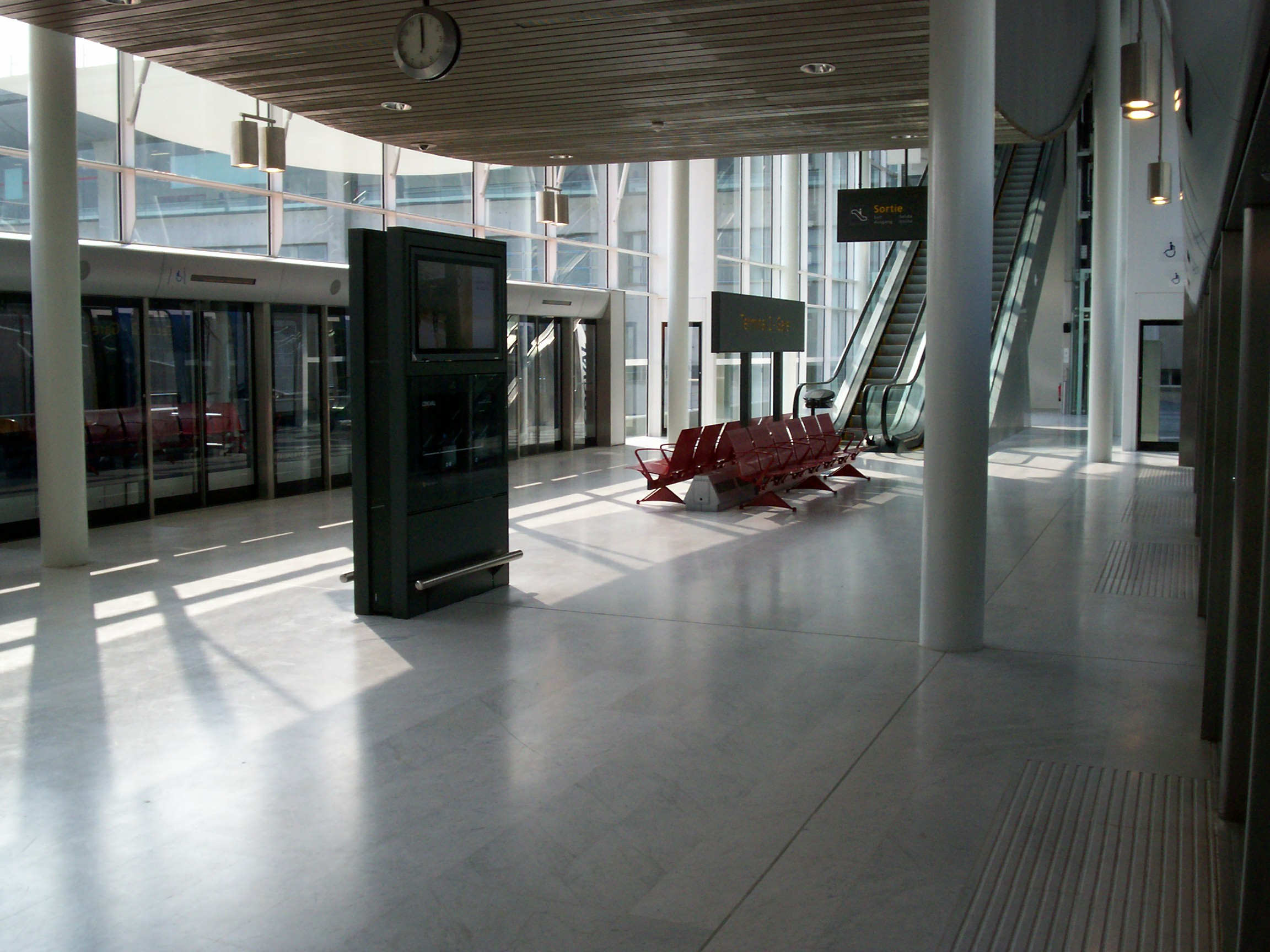 Station terminal Terminal2 GARE